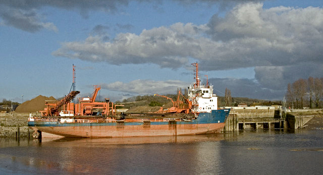 Dunball Sand Wharf